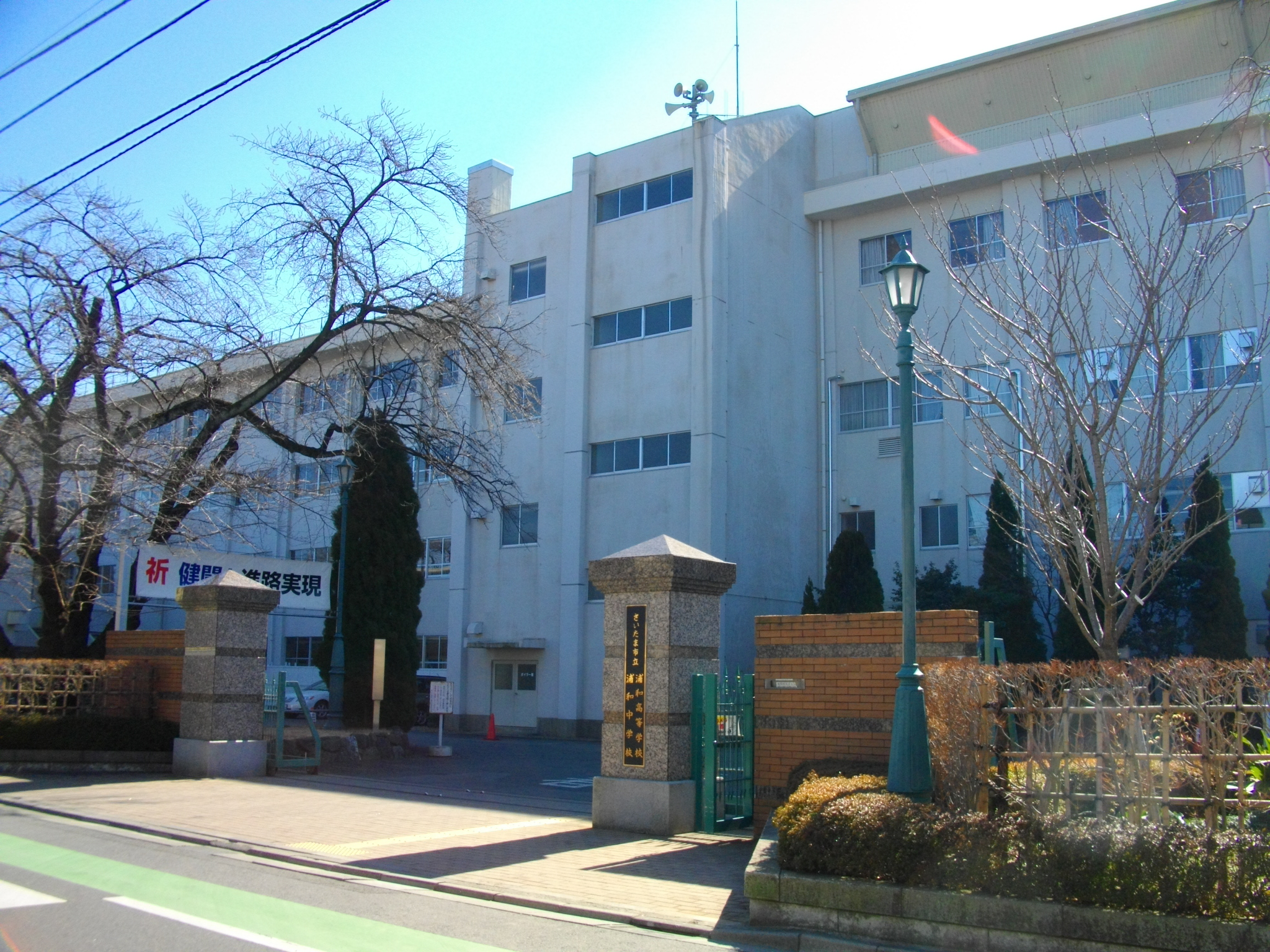 Saitama Municipal Urawa Junior and Senior High School